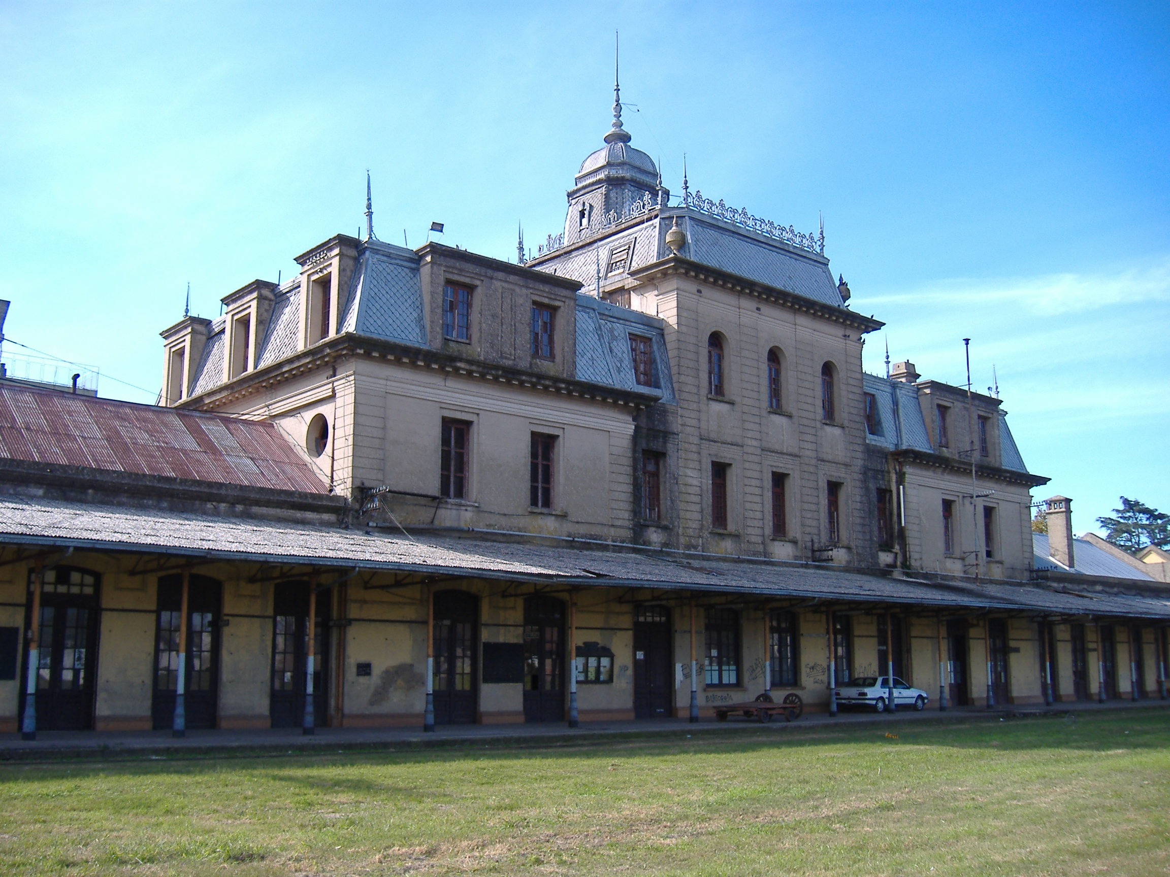 Rosario Central Córdoba former railway station, in Rosario, Argentina